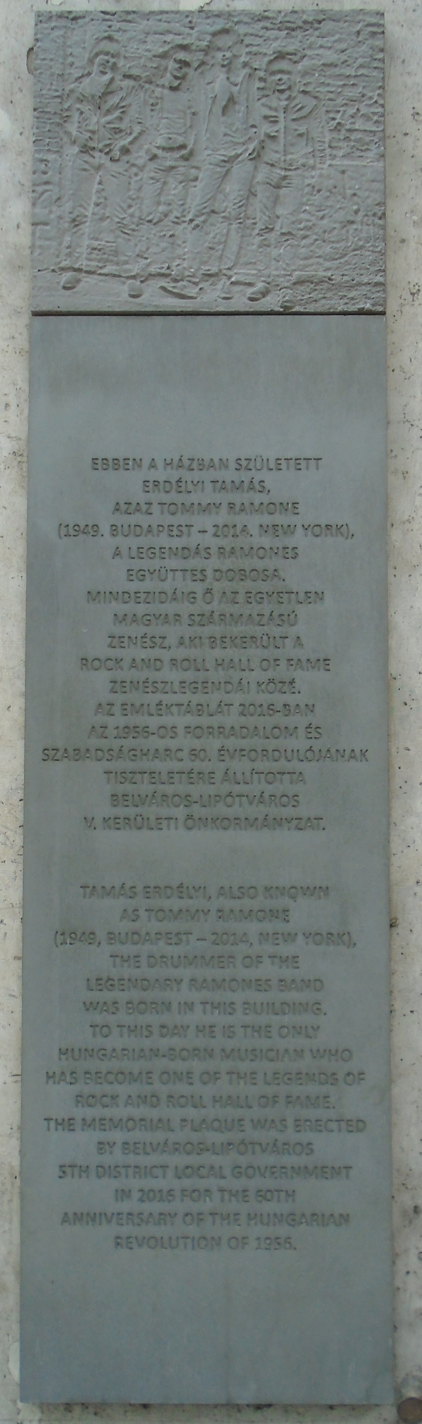 Tamás Erdélyi's (Tommy Ramone) commemorative plaque in Budapest District V.